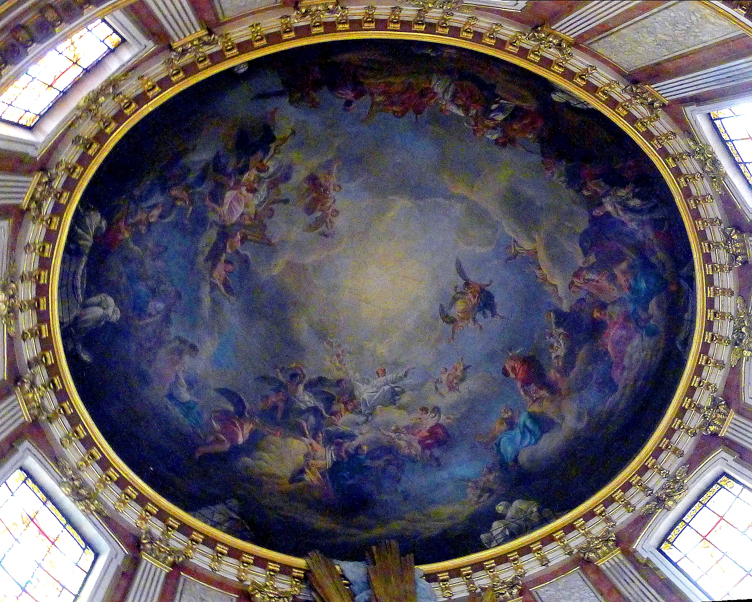 Saint-Roch church - Paris